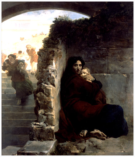 Massacre of the Innocents